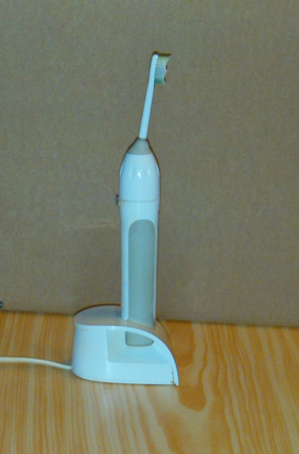 Electric Toothbrush, (Philips Sonicare, Elite Pro HX 7800)